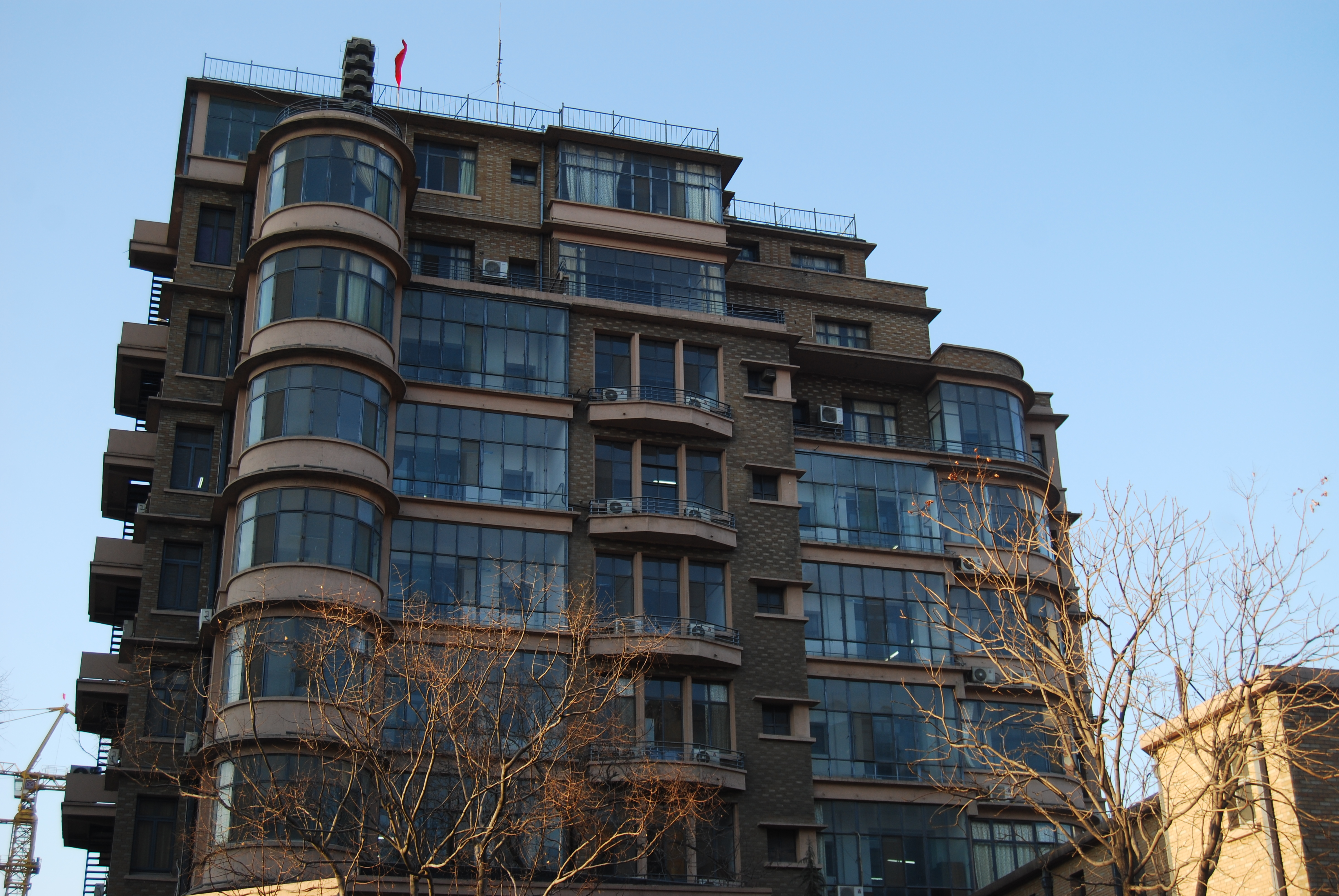 Leopold Building, Jiefangbei Lu No. 114–120, Heping District, Tianjin